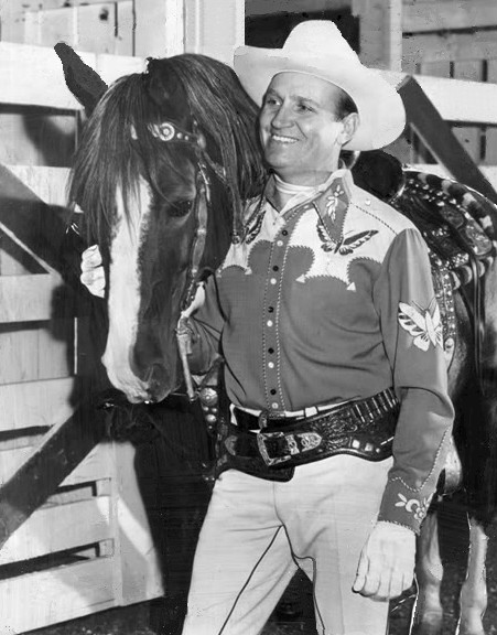 Photo of Gene Autry and Champion from the start of his television series.